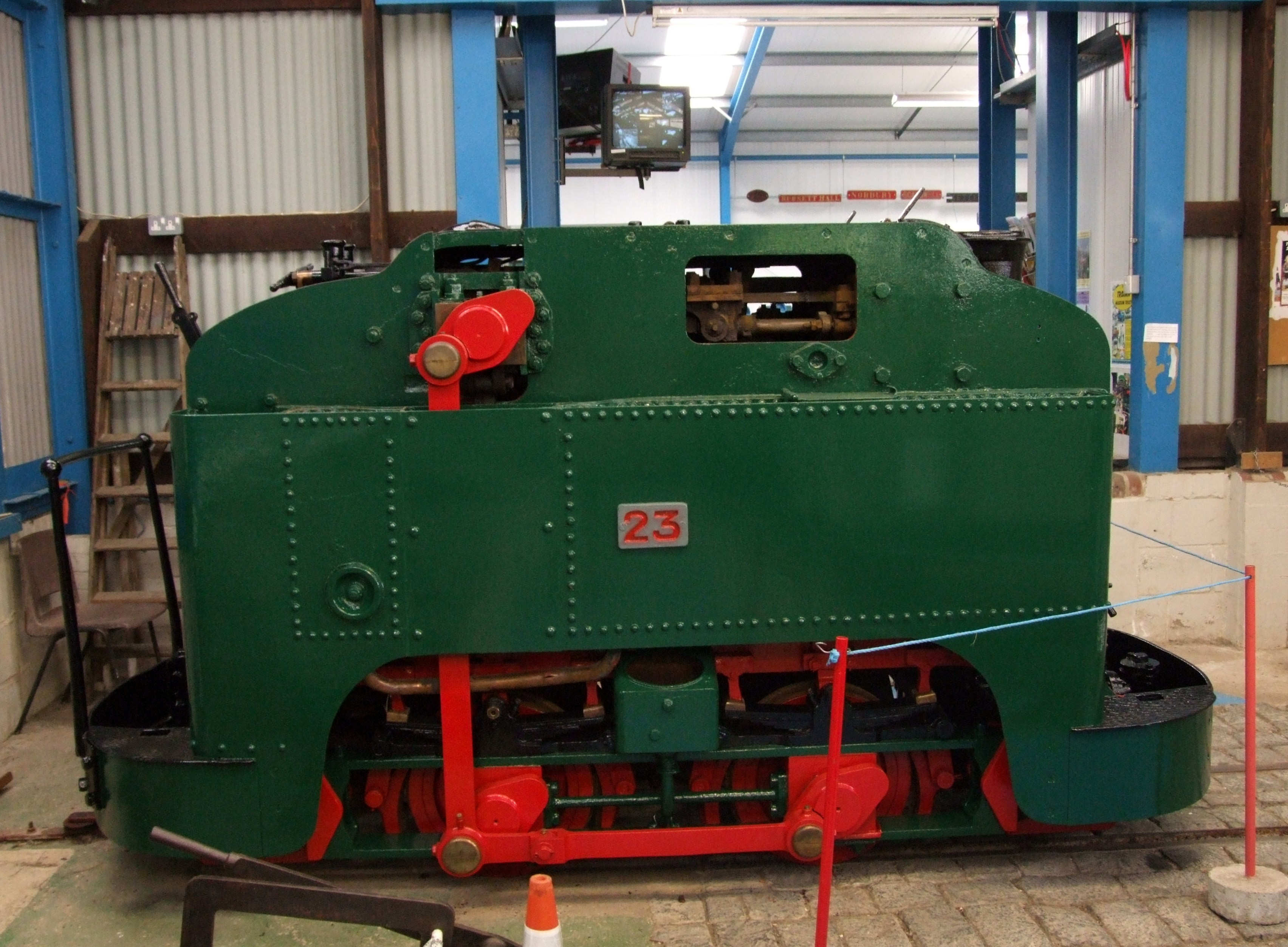 This engine is ingeniously arranged so as to be able to run either on 3 ft narrow gauge or on standard gauge tracks by the simple expedient of lifting the entire loco onto a standard gauge wagon. The locos wheels then drive the wagons wheels by means of flanged wheels mounted on the wagons axles.